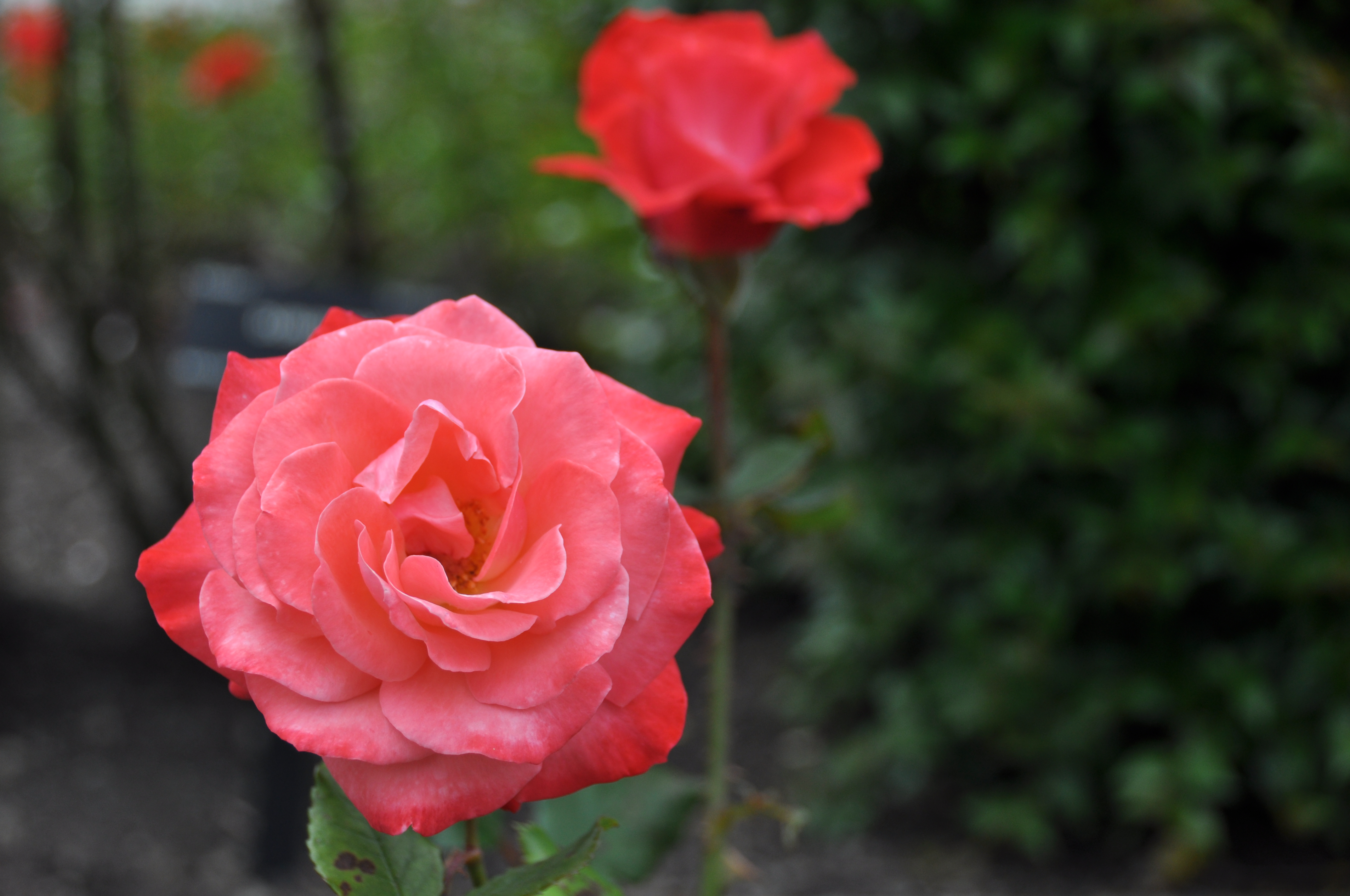 Shot in the Lady Norwood Rose Garden in the Wellington Botanic Gardens. Raw untouched photo from the Nikon D90, shot at 200mm for the bokeh effect. The title of the photo is actually the name of rose. See the rest of my photos at